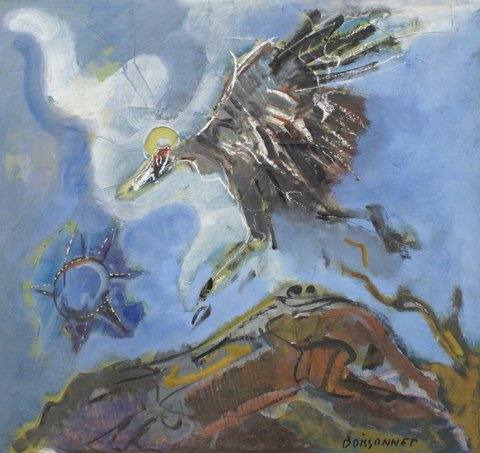 Edmond Boissonnet